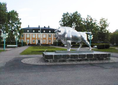 Visent statue made of stainless steel. Visent was the symbol of the local steel mills, former Avesta Jernverk. This statue can be seen in the city park in front of the Star hotel, Avesta Sweden.